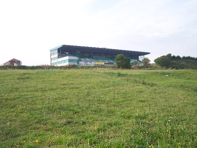 Whitehawk Camp, Brighton (with the Grandstand behind) A neolithic camp dating from 2700 BC covering some 12 acres. Excavated in the 1920s and 1930s. much destroyed by the racecourse and property developers.